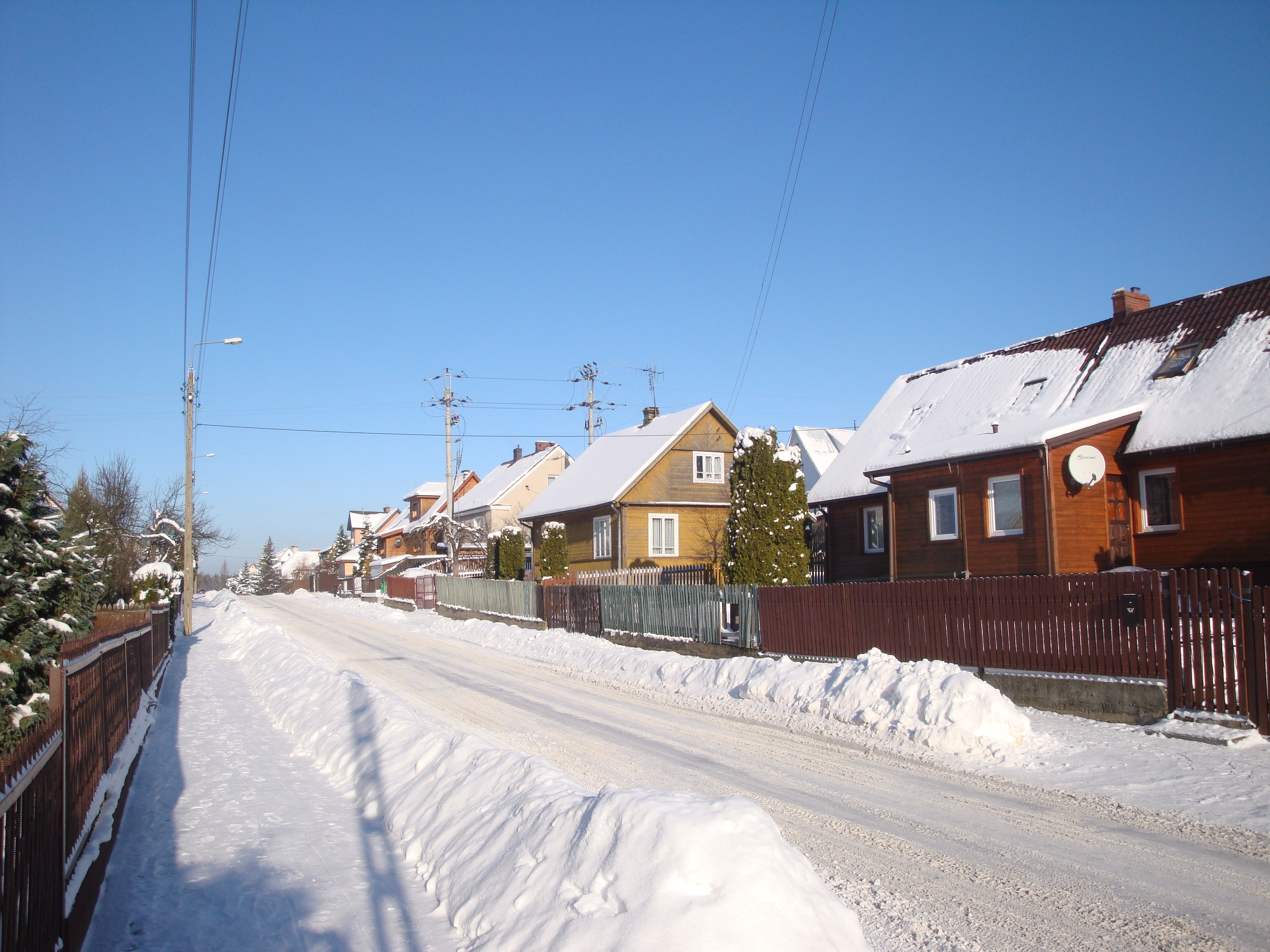 Brzozówka Street in Supraśl, Poland